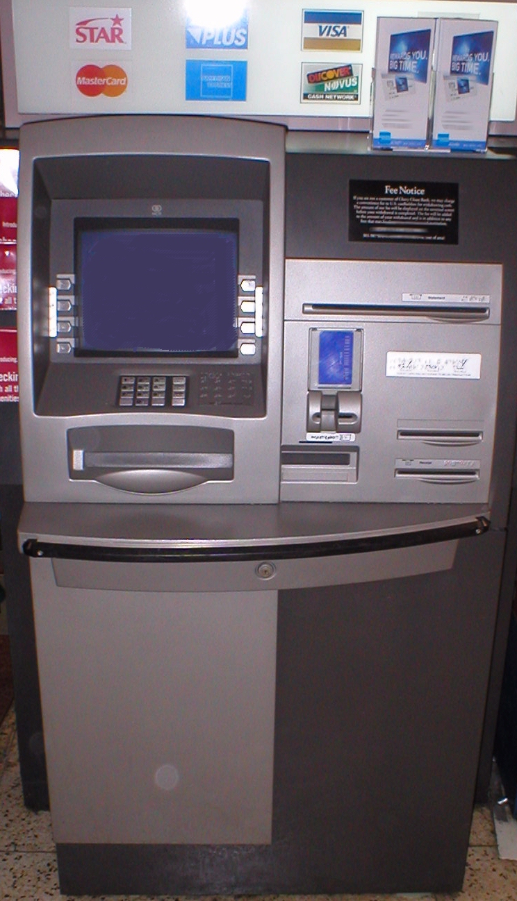 Large image of an ATM Photographed inside a Giant Food store in Alexandria, Virginia, USA.